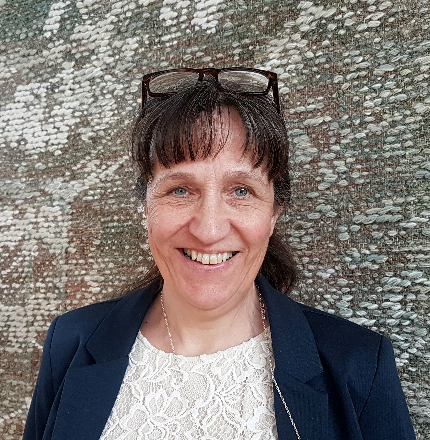 Marie-Charlotte Nilsson Hegethorn 2018